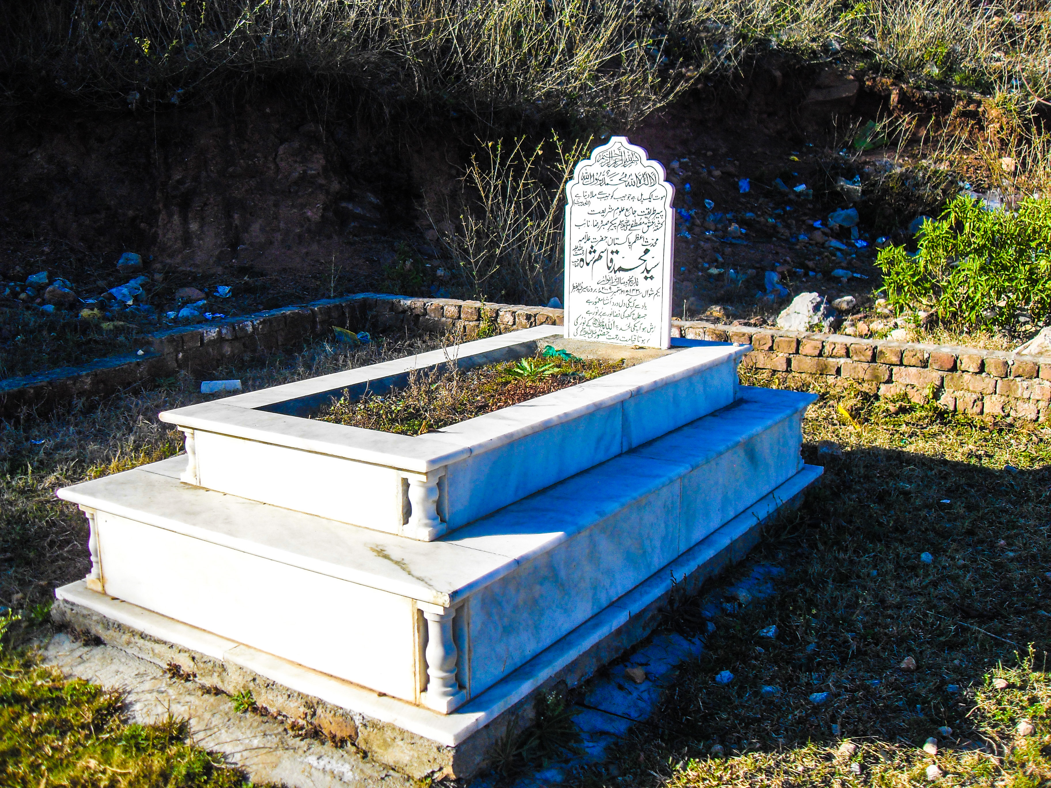 mazar e qasim